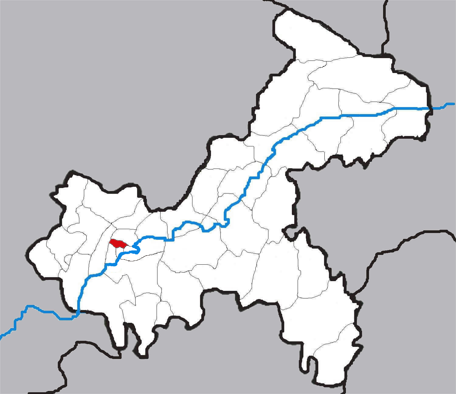 Administration maps of Chongqing, China